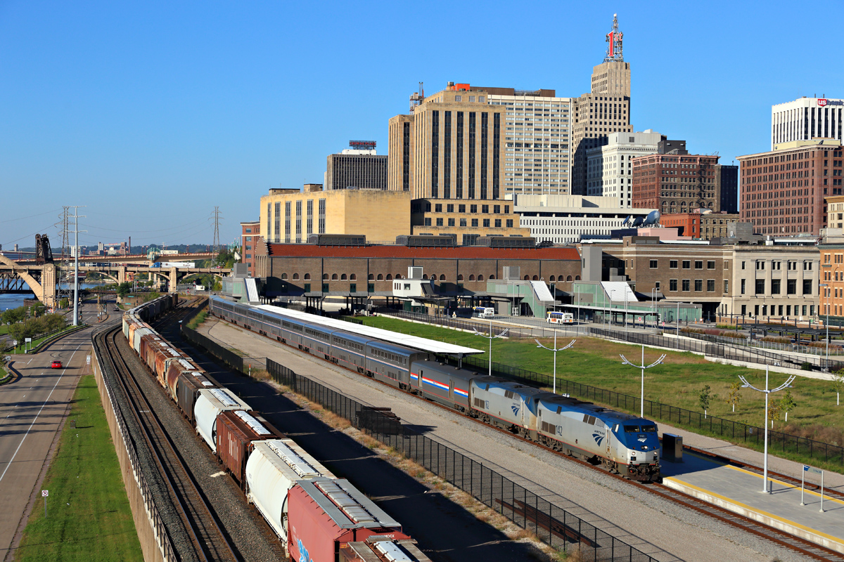 Amtrak P42DCs lead an 11 car Empire Builder at Union Depot in St. Paul, MInn. on 9/27/2015. CP Northfield is on the left.